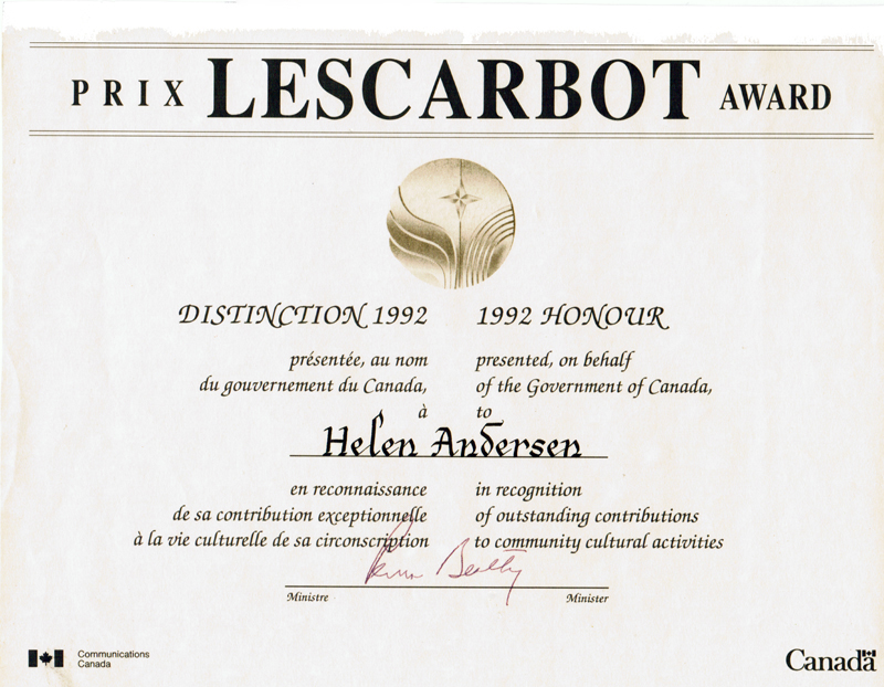 Example of a Lescarbot Award document